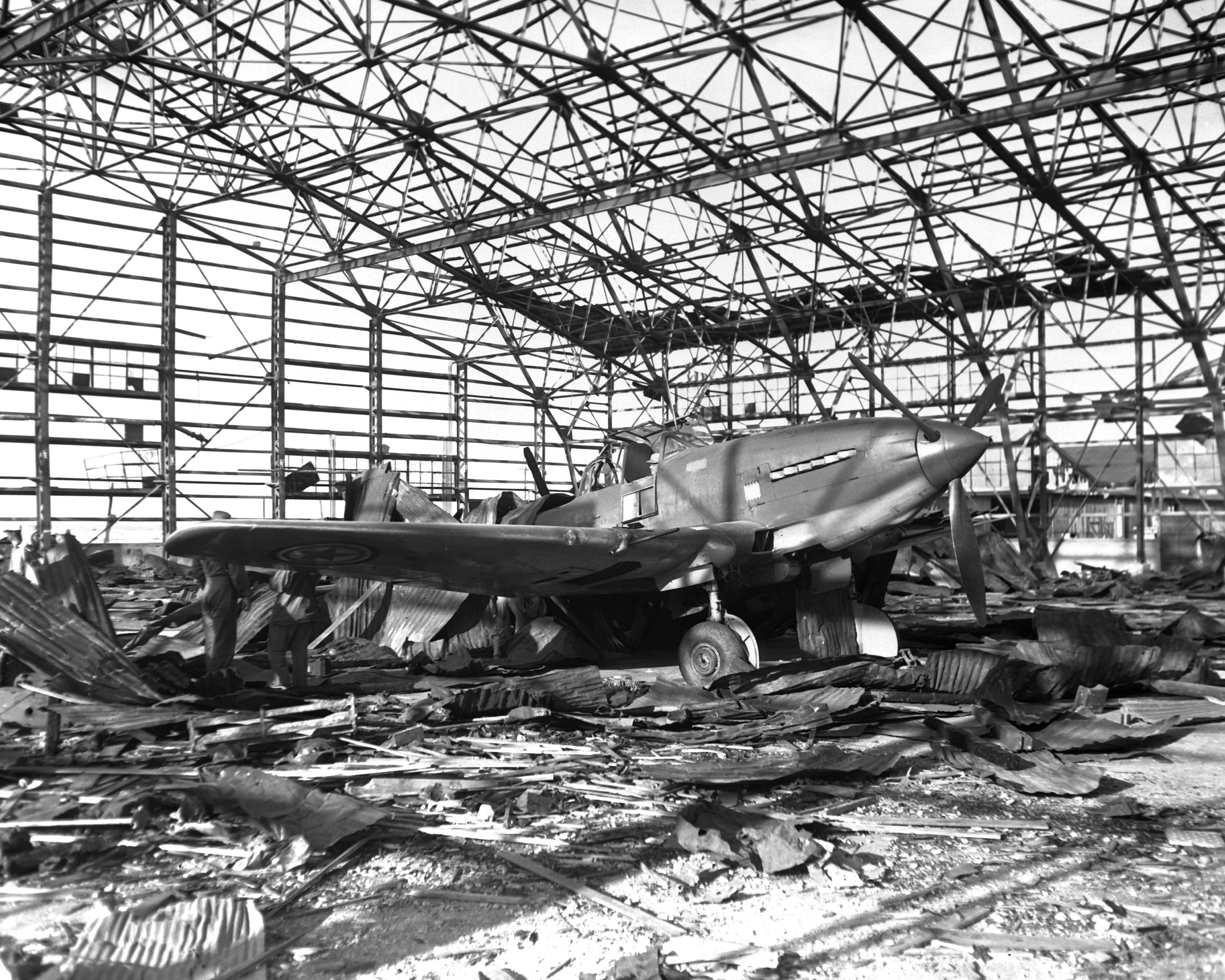 A North Korean Ilyushin Il-10 attack aircraft in a damaged hangar at Kimpo airfield, South Korea, on 21 September 1950.